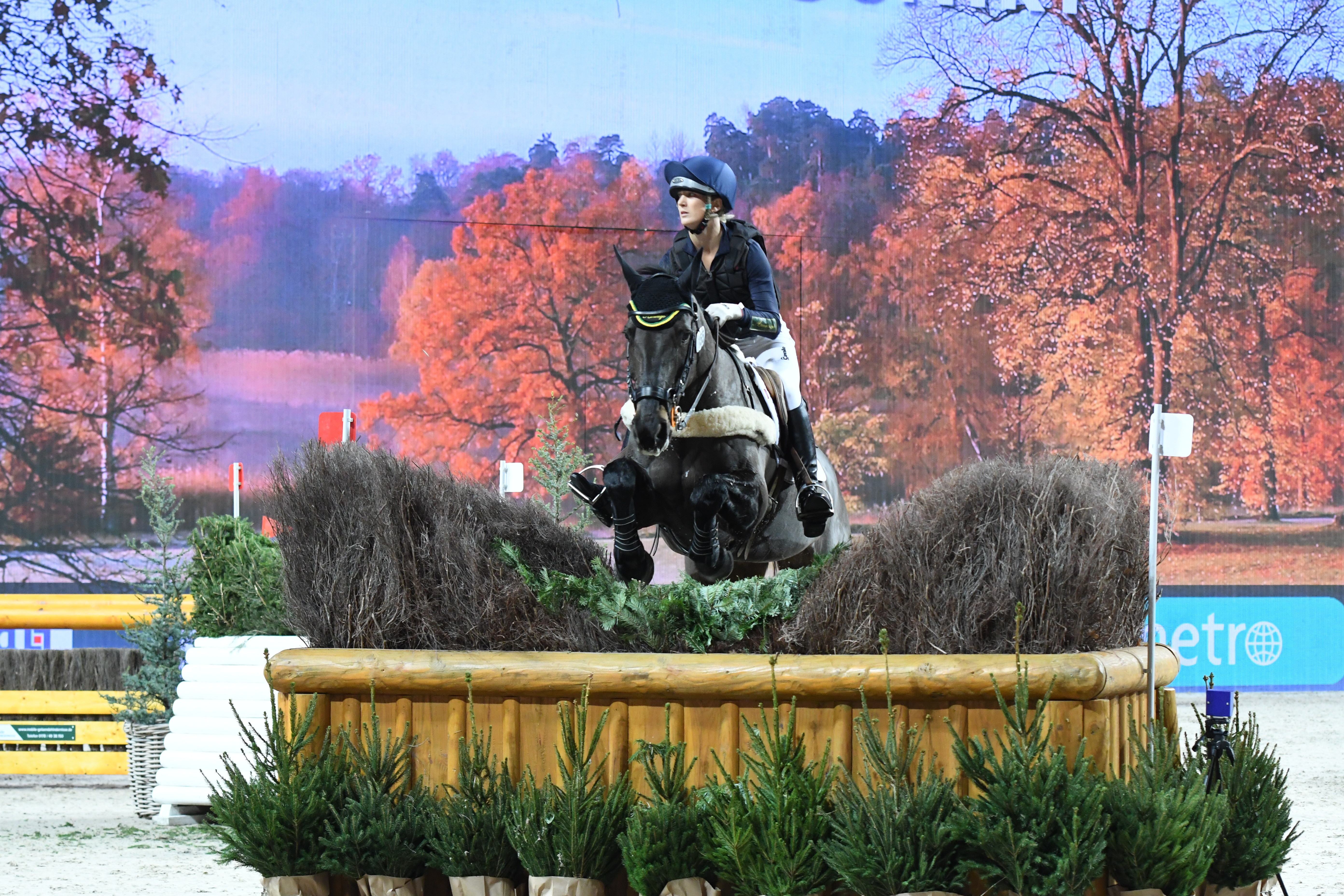 Lissa Green and Malin Head Clover during indoor cross-country during Sweden International Horse Show 2018.